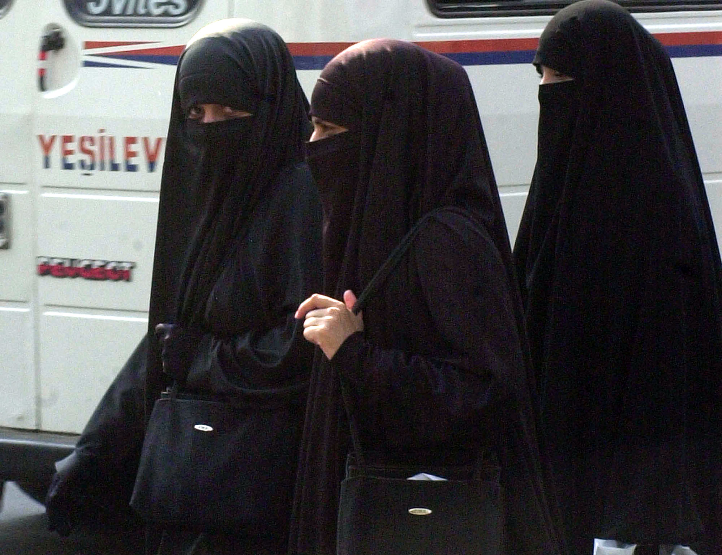 Women in Adana (Turkey) wearing the niqab.